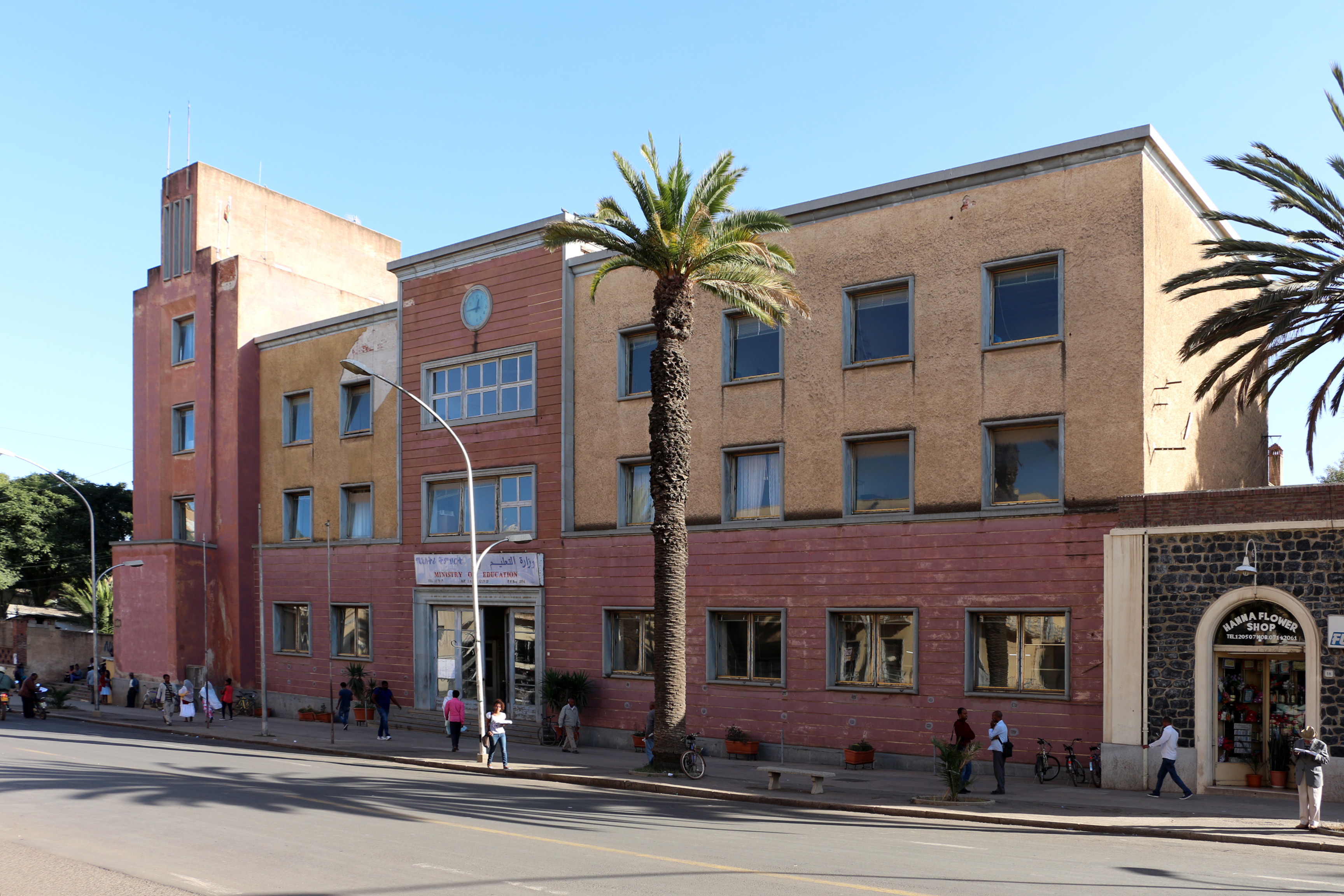 Buildings in Asmara